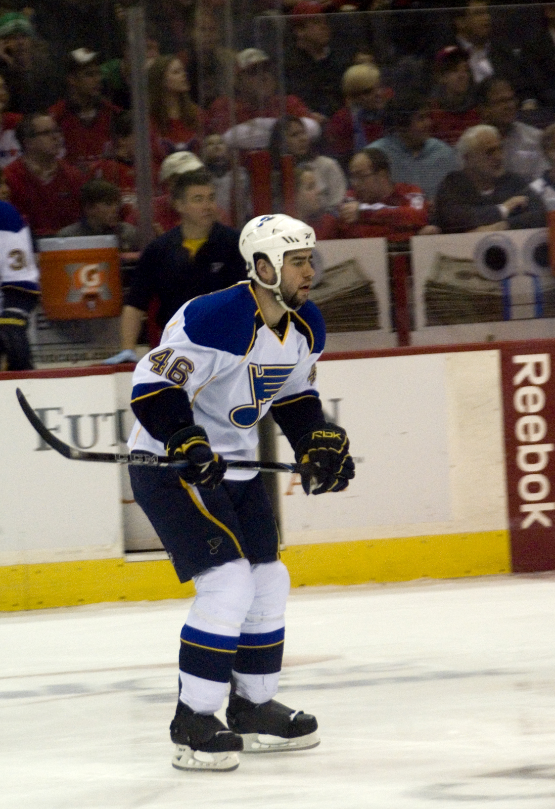 ERI_5174 Photo taken on March 3, 2011 by Sarah Connors. St. Louis Blues vs. Washington Capitals – National Hockey League (NHL) This photo also appears in sarah_connors' Flickr photostream Blues @ Caps, 3/3/11 (Set: 134) Flickr Tags: St. Louis Blues, Washington Capitals, Capitals, Caps, Blues, hockey, icehockey, NHL, Verizon Center